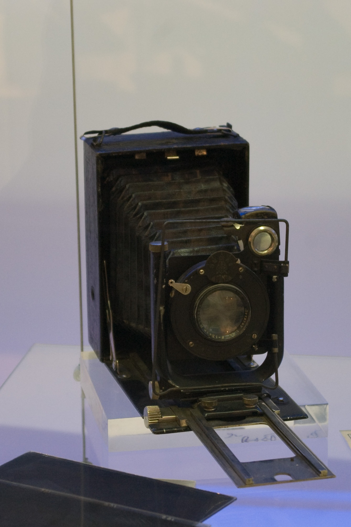 Fotokor №-1 (USSR photocamera)